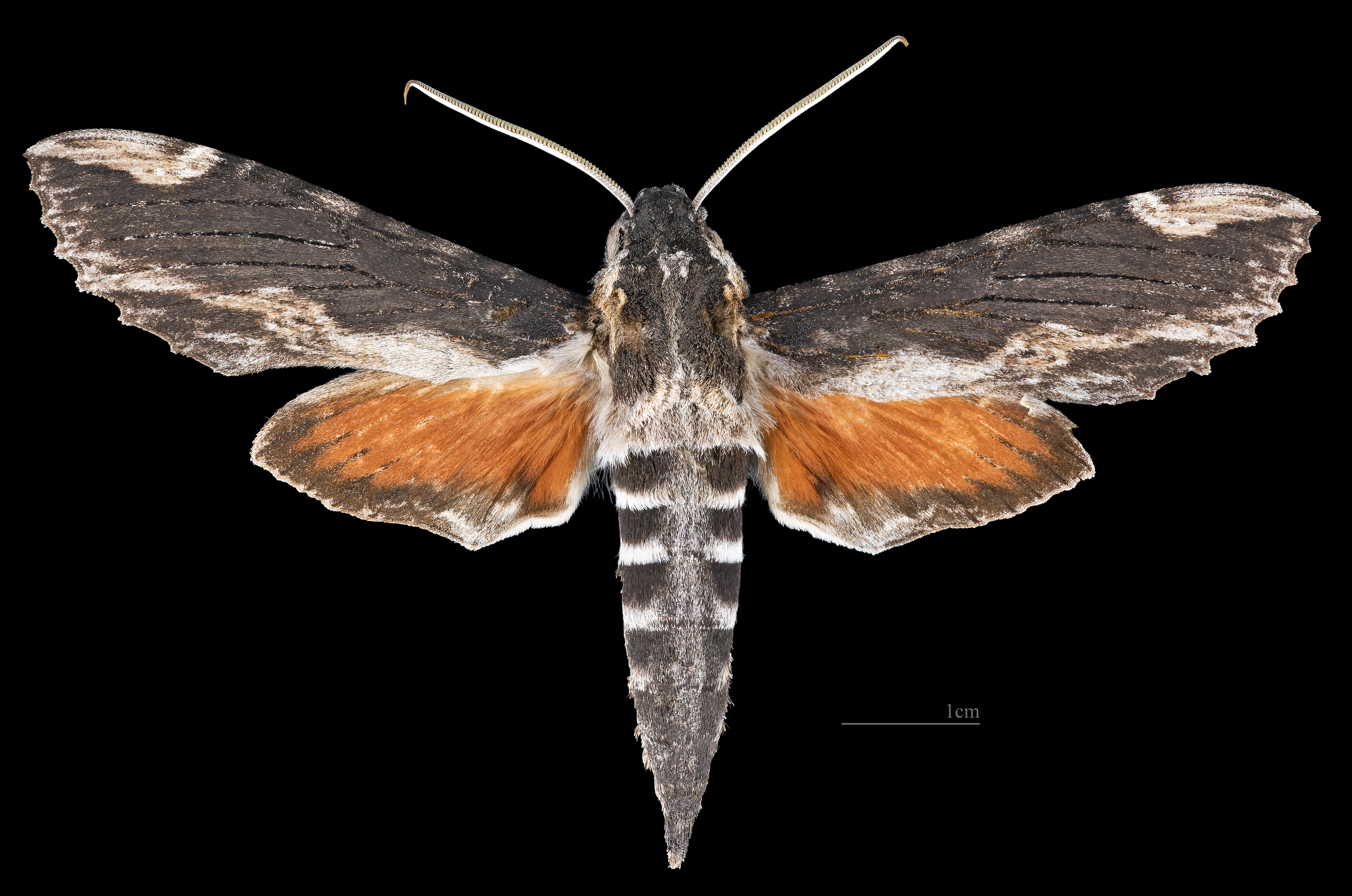 Erinnyis impunctata - Dorsal side Collection of the Mathematician Laurent Schwartz